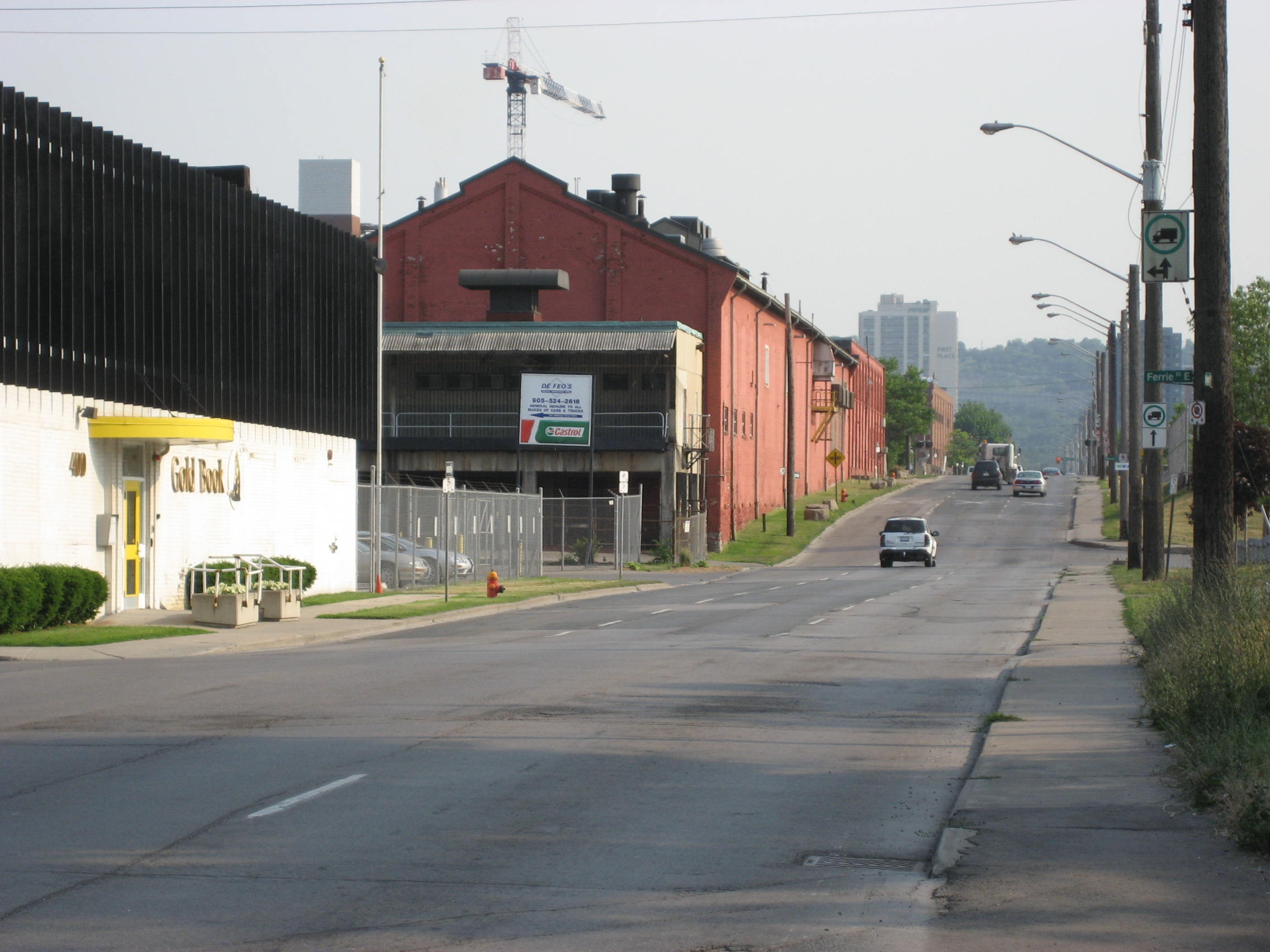 Wellington Street North, looking South, Hamilton, Ontario